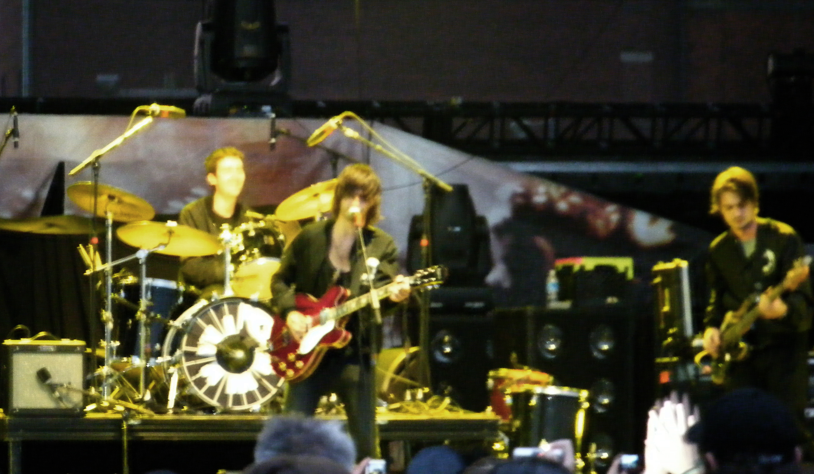 Phantom Planet in 2008, Philadelphia, Pennsylvania